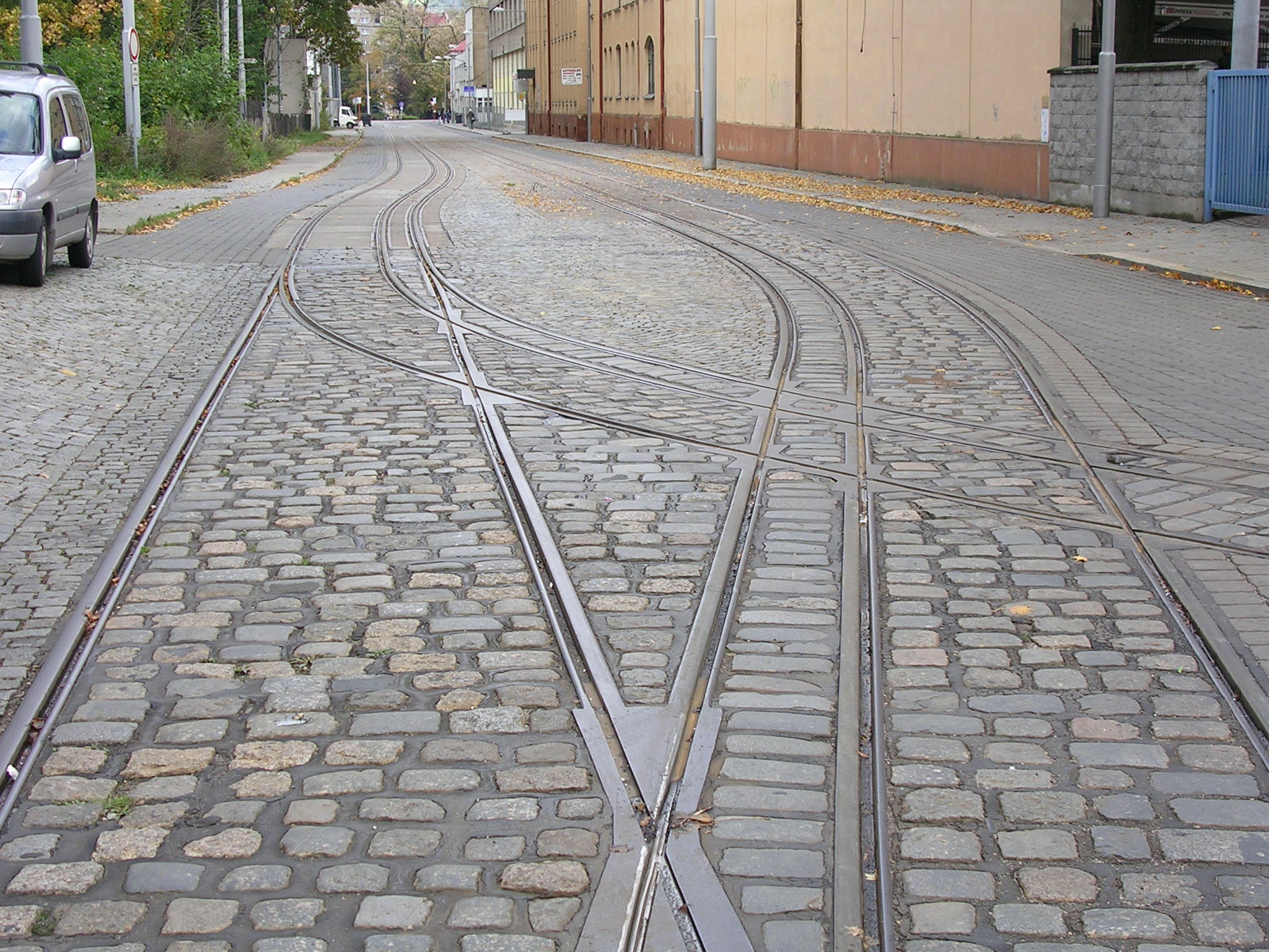 Liberec, Czech Republic. Tram depo entry.